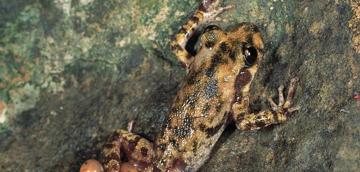 Majorcan midwife toad